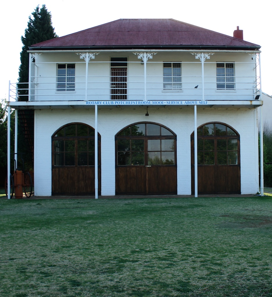 Old Fire Brigade Station, Kock Street, Potchefstroom This media shows a South African Protected Site with SAHRA file reference 9/2/256/0028.